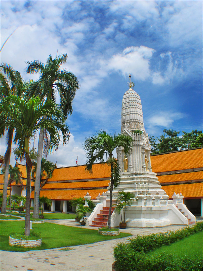 Gallery and Prang, Wat Mahathat, Bangkok, Thailand